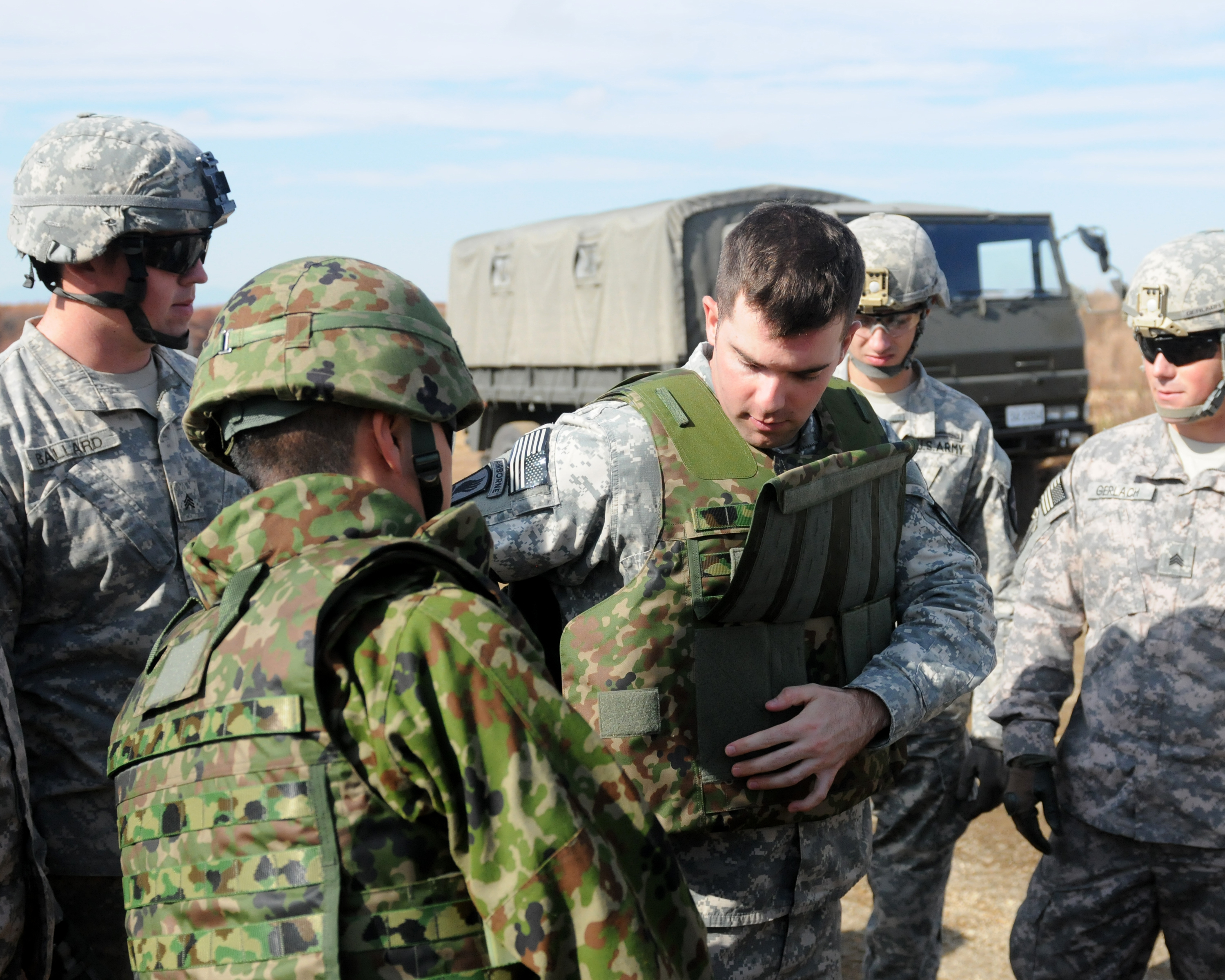 U.S. Army Soldiers from 1st Battalion, 17th Infantry Regiment, 2nd Stryker Brigade Combat Team, 2nd Infantry Division from Joint Base Lewis-McChord, Wash. become familiar with Japan Ground Self-Defense Force tactical equipment during close quarter marksmanship training, here Oct. 24. Close quarters marksmanship pairs soldiers together to train in a live fire exercise in a confined space. CQM is a key fighting skill, though it may seem easier as the distance is shorter there are a number of other factors that must be considered for success in this type of engagement. Members of the JGSDF put on a demonstration for their U.S. Army counterparts to showcase their weapon and movement skills during Orient Shield 14. Orient Shield 14 brings together the 2nd SBCT, 2nd Inf. Div. from JBLM and JGSDF members from the 11th Infantry Regiment, 7th Armor Division, Northern Army for combined light infantry, squad-level and urban assault training.